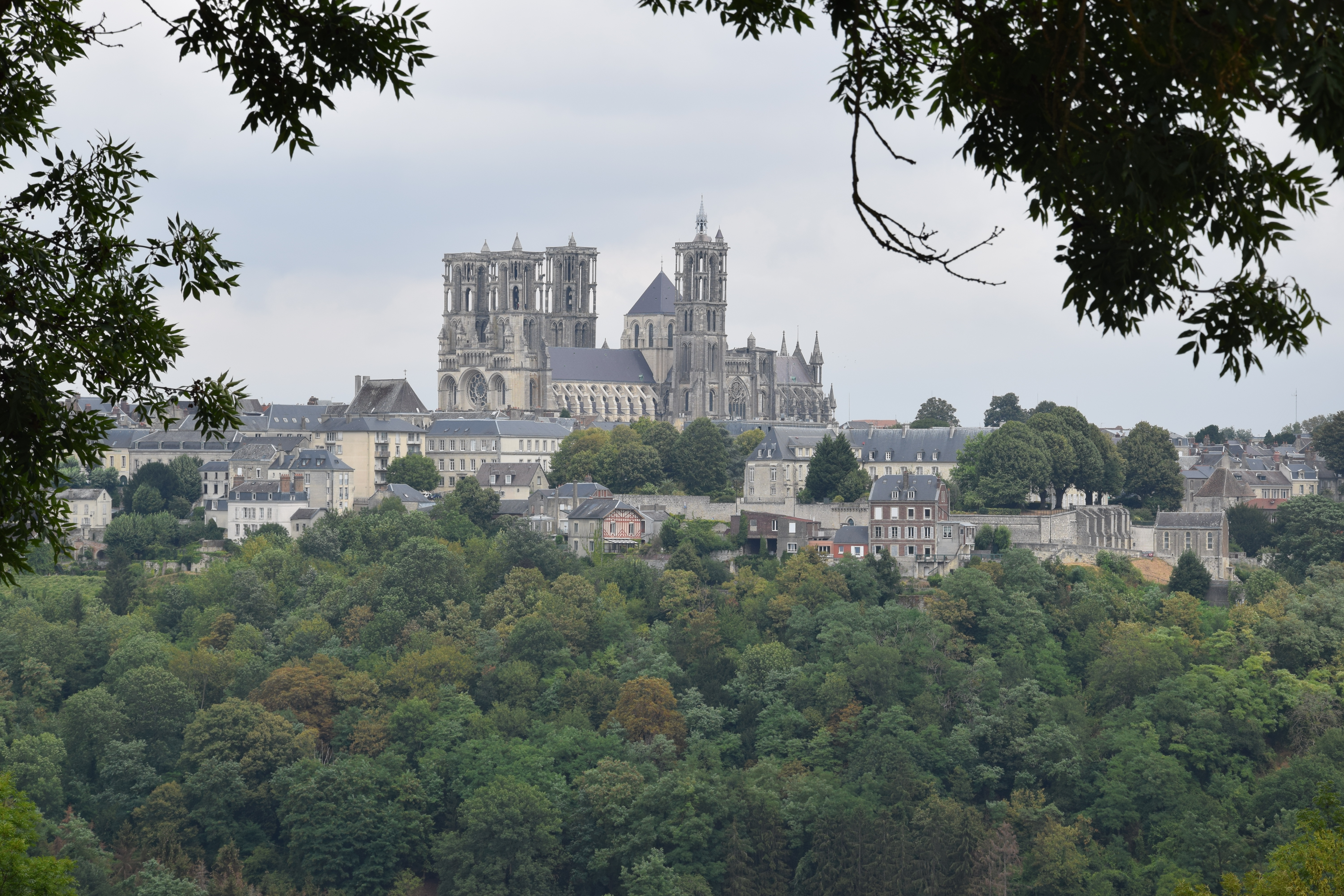 Cathédrale Notre-Dame de Laon It is indexed in the Base Mérimée, a database of architectural heritage maintained by the French Ministry of Culture, under the references PA00115710 and cathédrale .